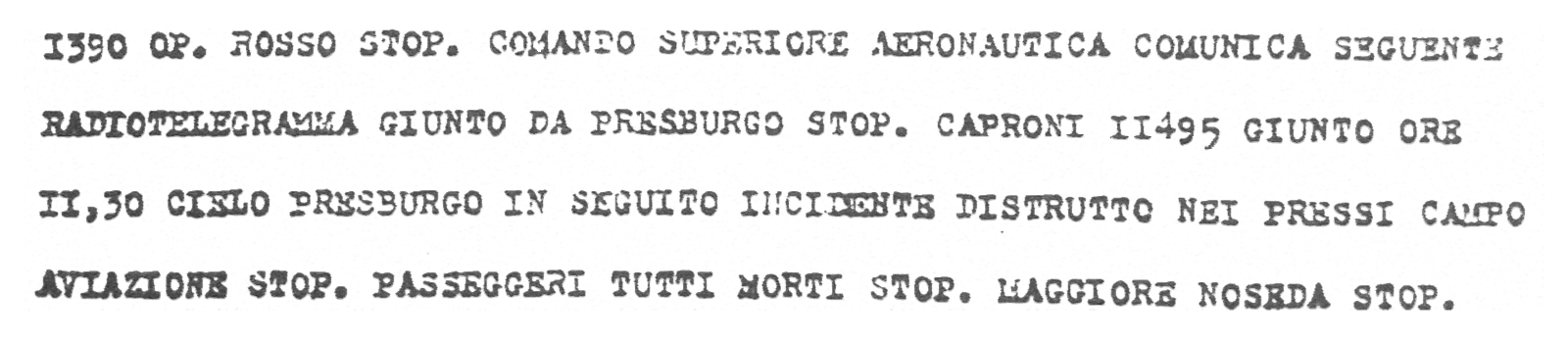 Message about Štefanik crash